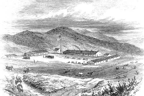 Etching of the Presidio of San Francisco circa 1850 - California. During California's U.S. territory into statehood era.